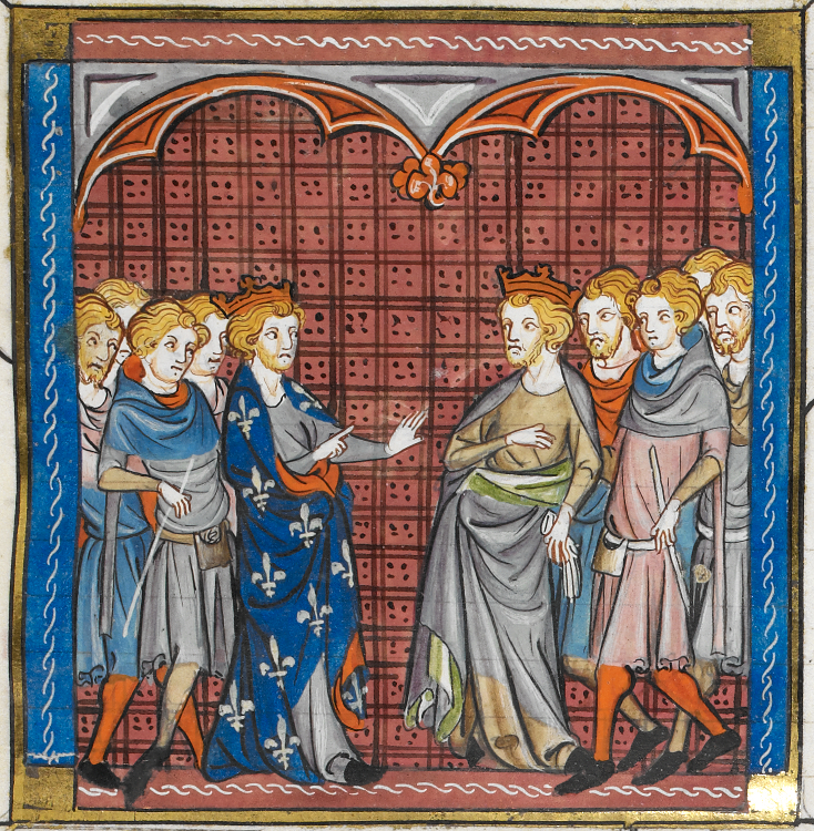 Philip II of France and Tancred of Sicily meeting in Messina; detail of a miniature from BL Royal MS 16 G vi, f. 350r. Held and digitised by the British Library.